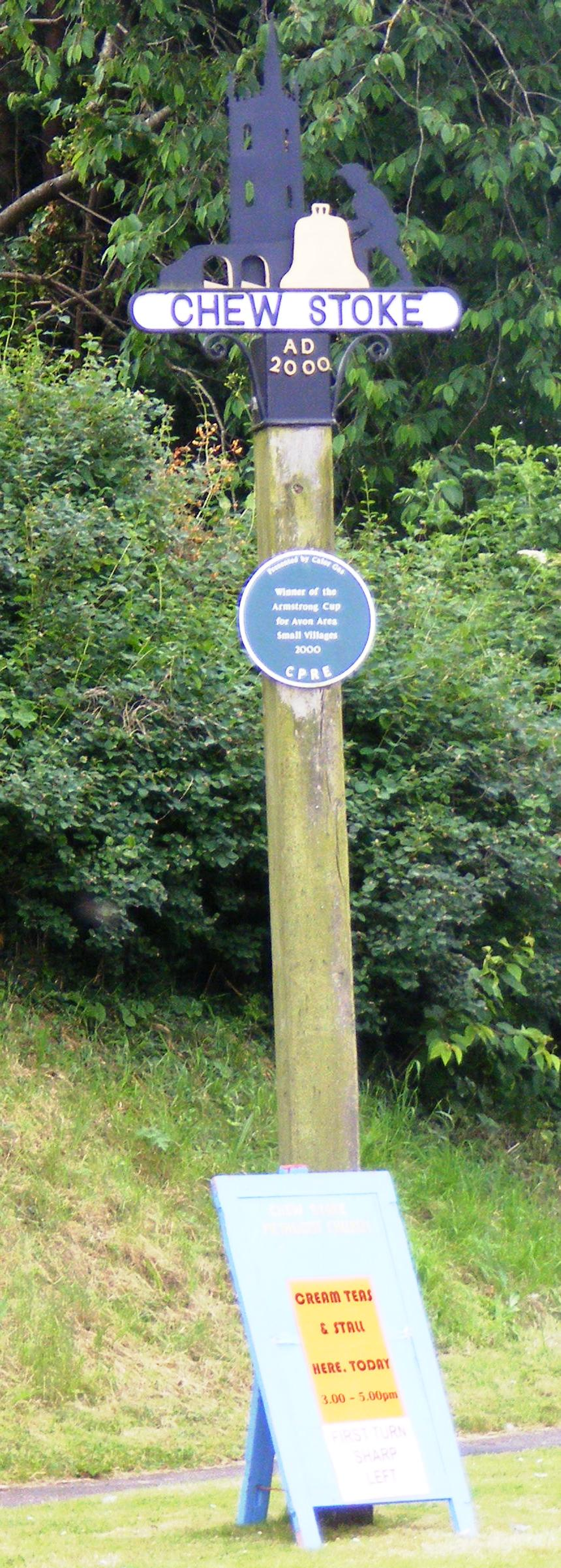 Village sign in Chew Stoke, Somerset, England